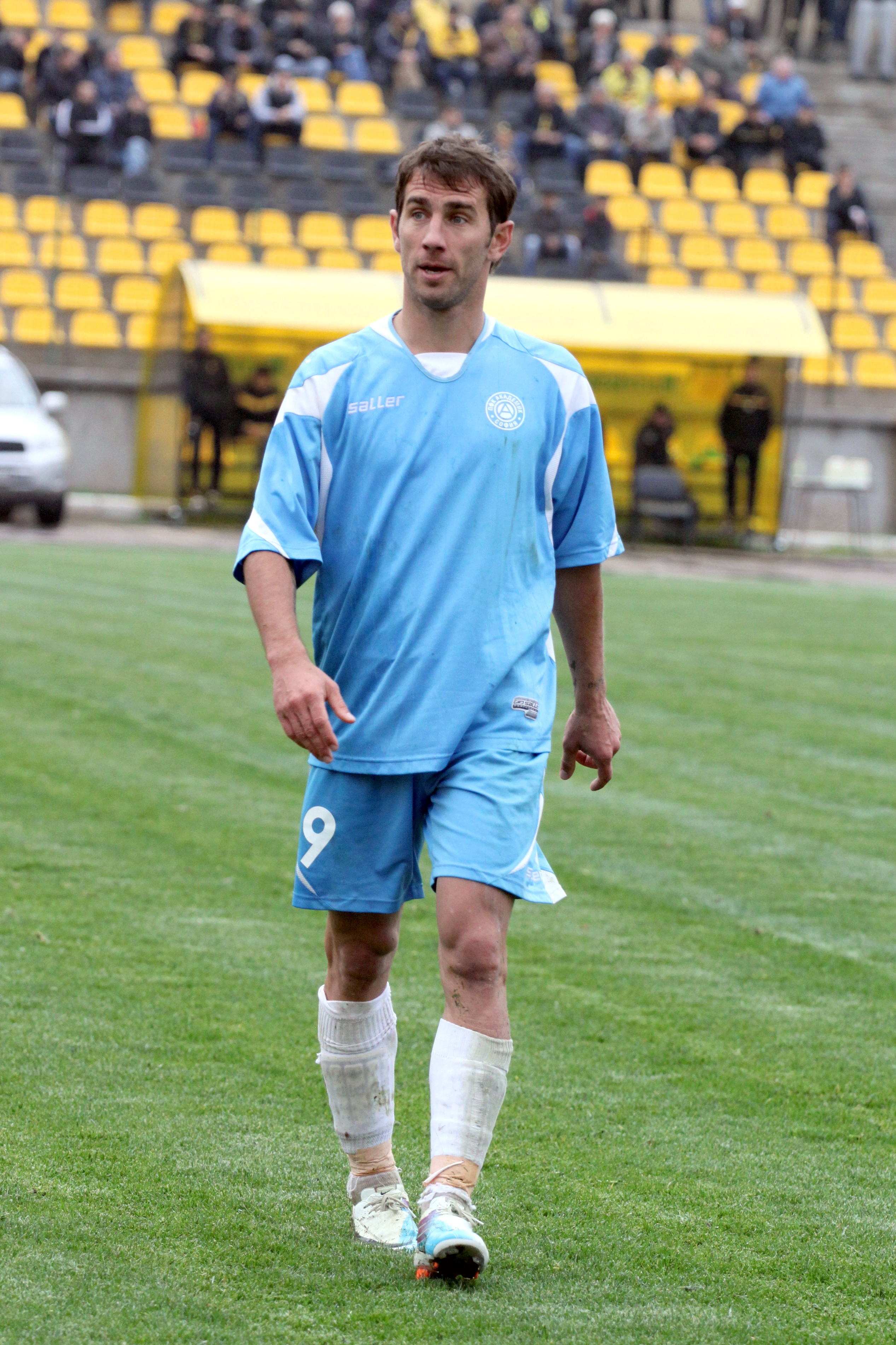 Stoyko Sakaliev (Bulgarian: Стойко Маринов Сакалиев) (born 25 March 1979) is a Bulgarian footballer who currently plays for Akademik Sofia.